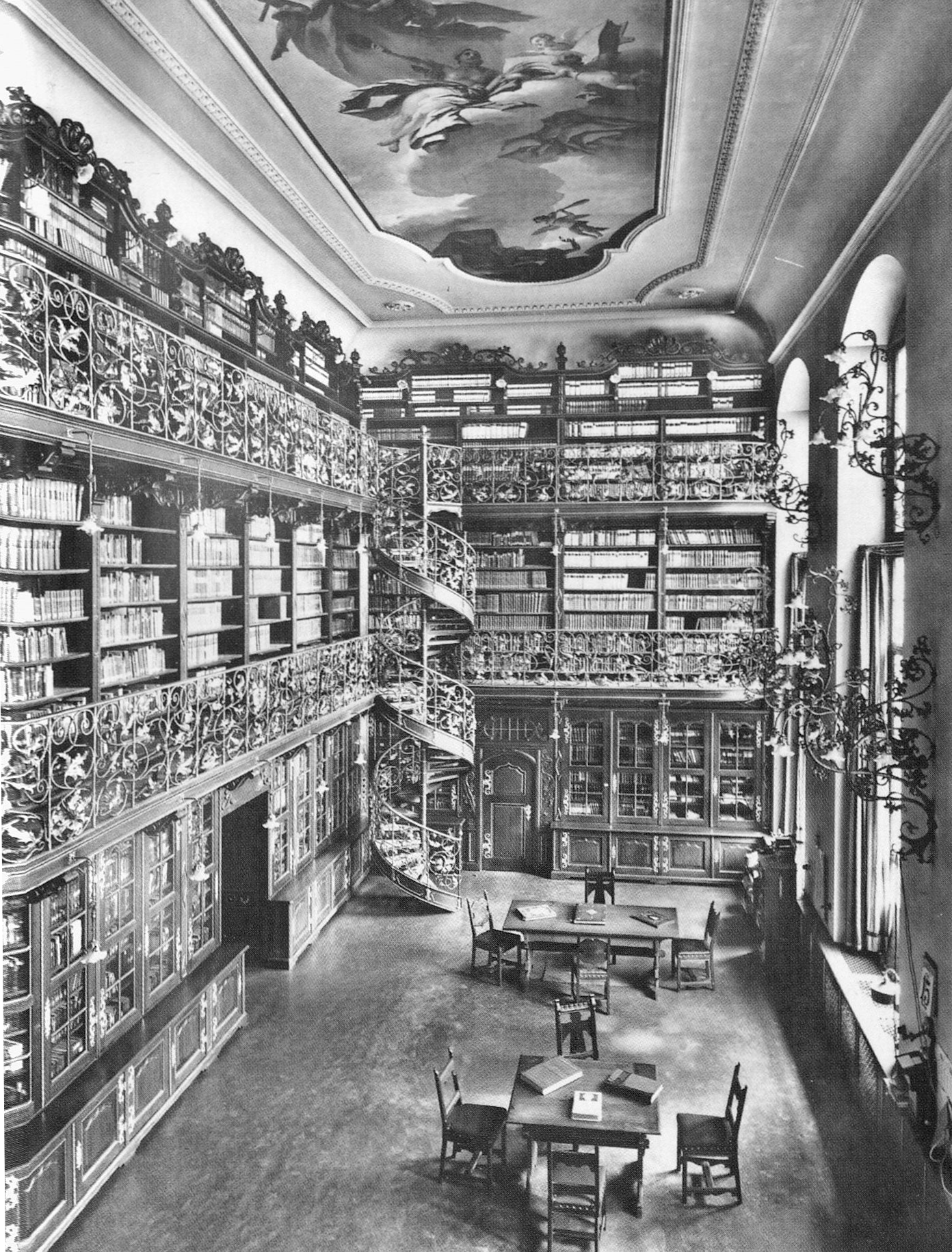 Interior of the law library inside the Munich Town Hall. The Building and the interior were designed by Georg von Hauberrisser.